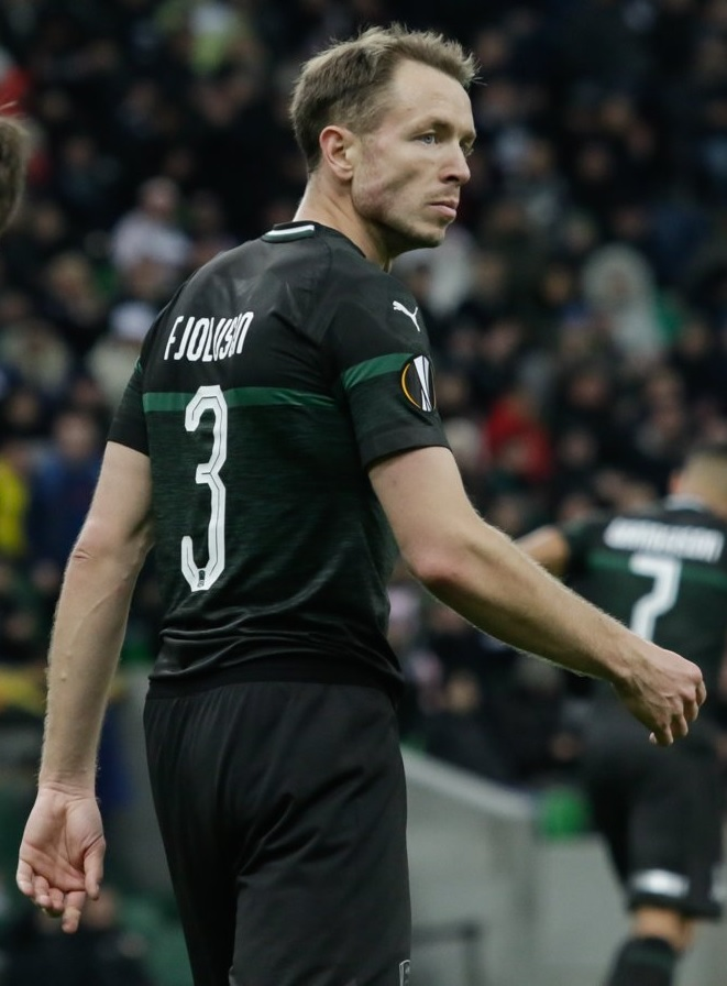 Jón Guðni Fjóluson with FC Krasnodar in an Europa League game against Valencia CF.